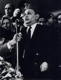 Allal El Fassi giving a speech during a meeting of the Istiqlal party in September 1956